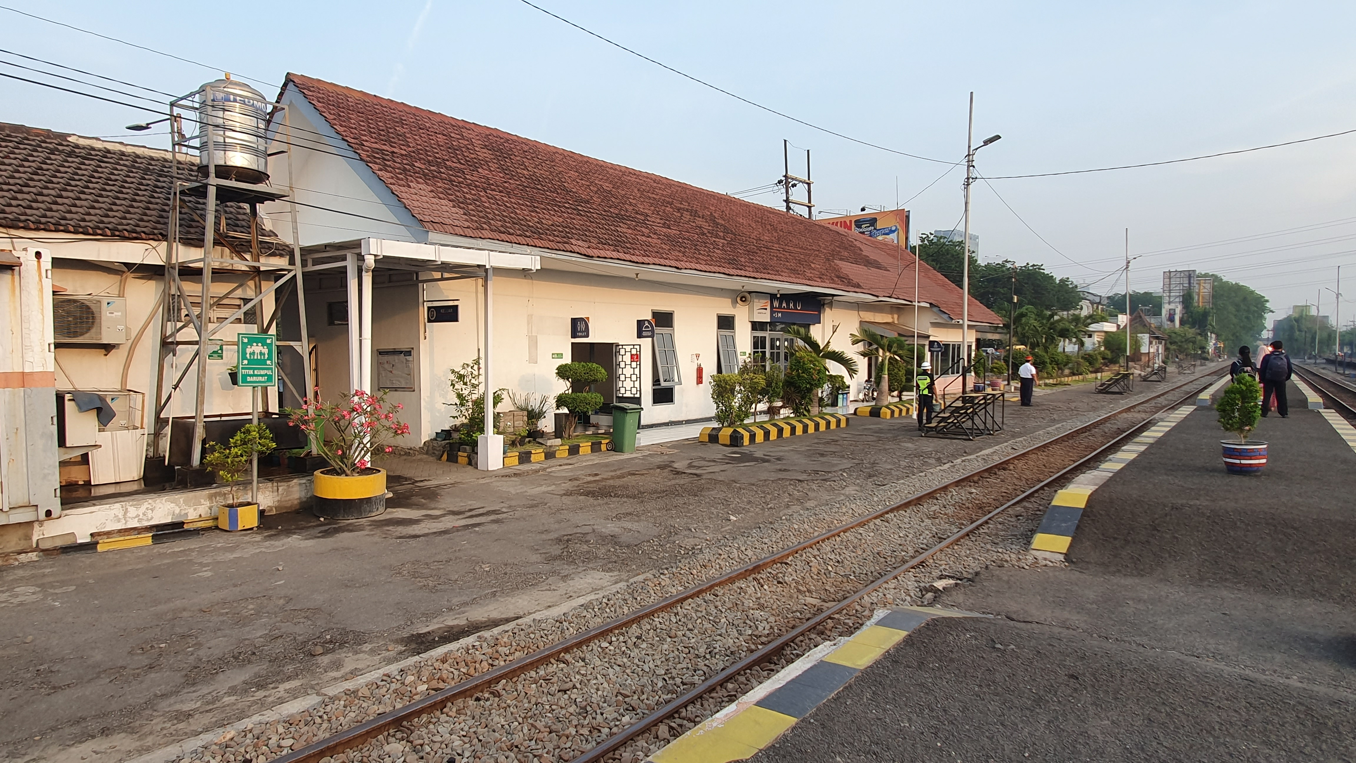 Waru train station.